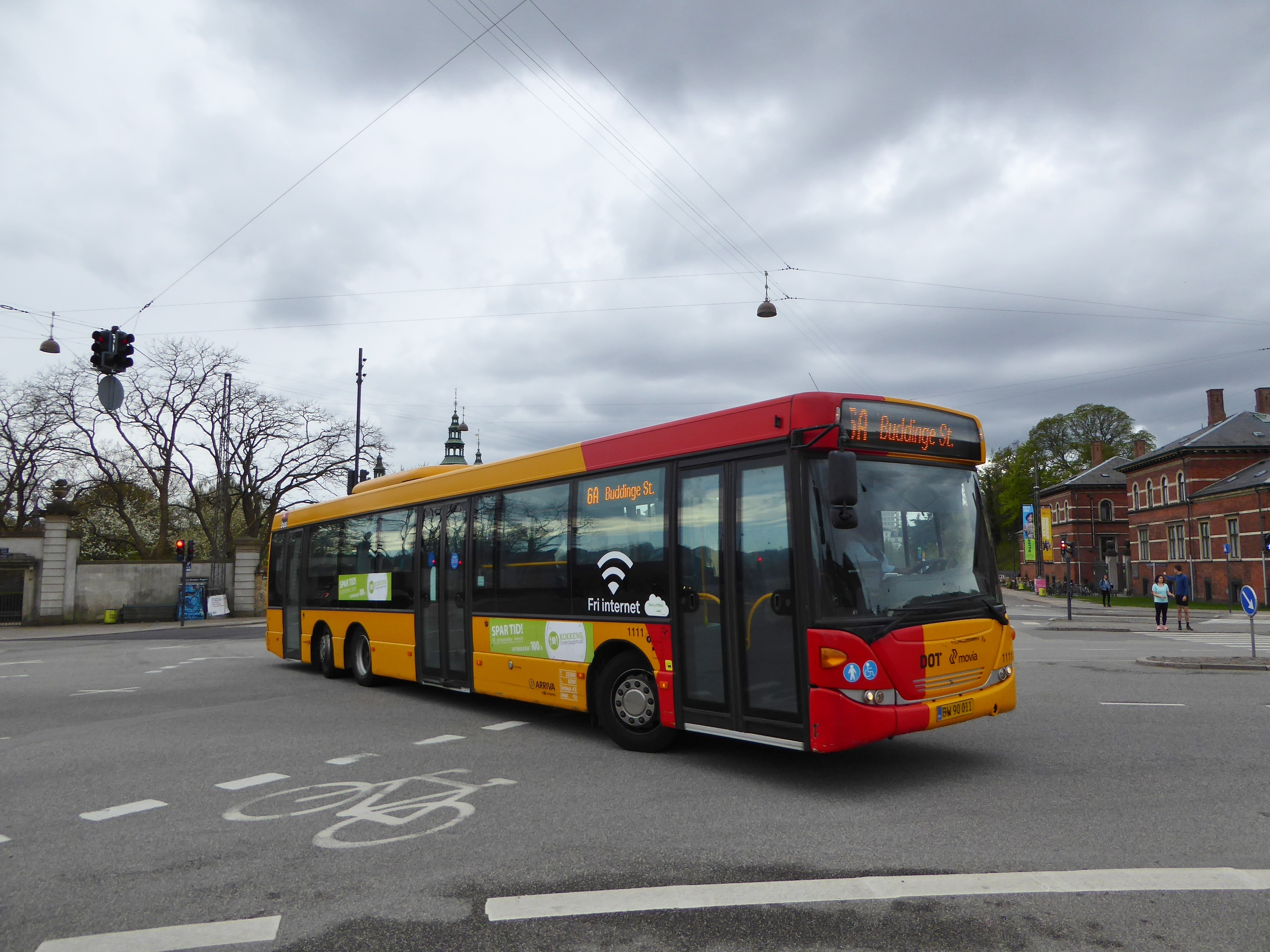 Movia bus line 6A at Georg Brandes Plads in indre By in Copenhagen.